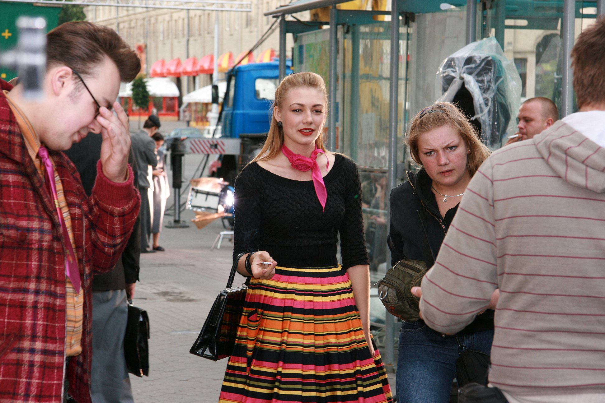 Oksana Akinshina and Igor Voynarovsky on Independence avenue, Minsk (production of "Stilyagi")